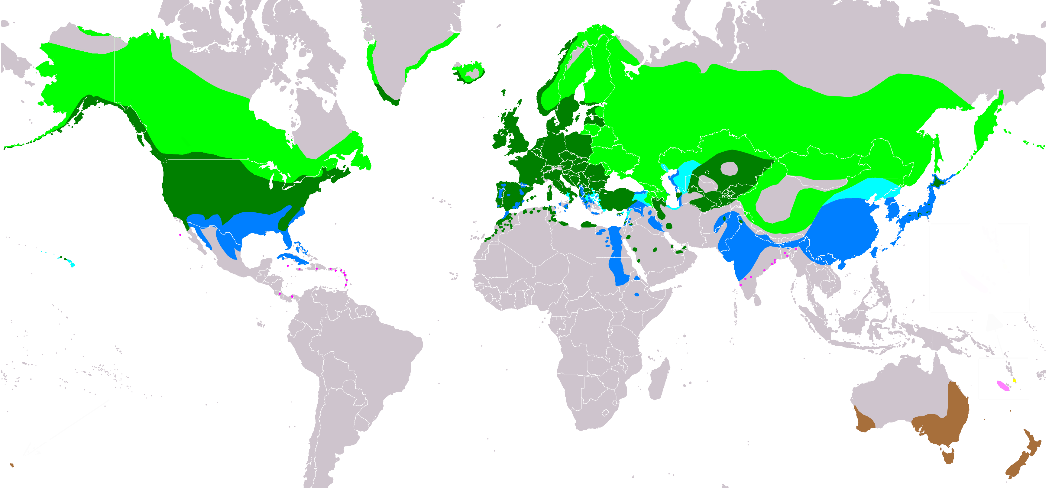 Distribution map of mallard (Anas platyrhynchos) according to IUCN version 2019-2 ; key: Legend: Extant, breeding (#00FF00), Extant, resident (#008000), Extant, passage (#00FFFF), Extant, non-breeding (#007FFF), Extant & Vagrant (seasonality uncertain) (#FF00FF), Probably extinct & Introduced (#FF80FF), Extant & Introduced (seasonality uncertain) (#a76f3b), Possibly Extant & Introduced (seasonality uncertain) (#DFDF00)